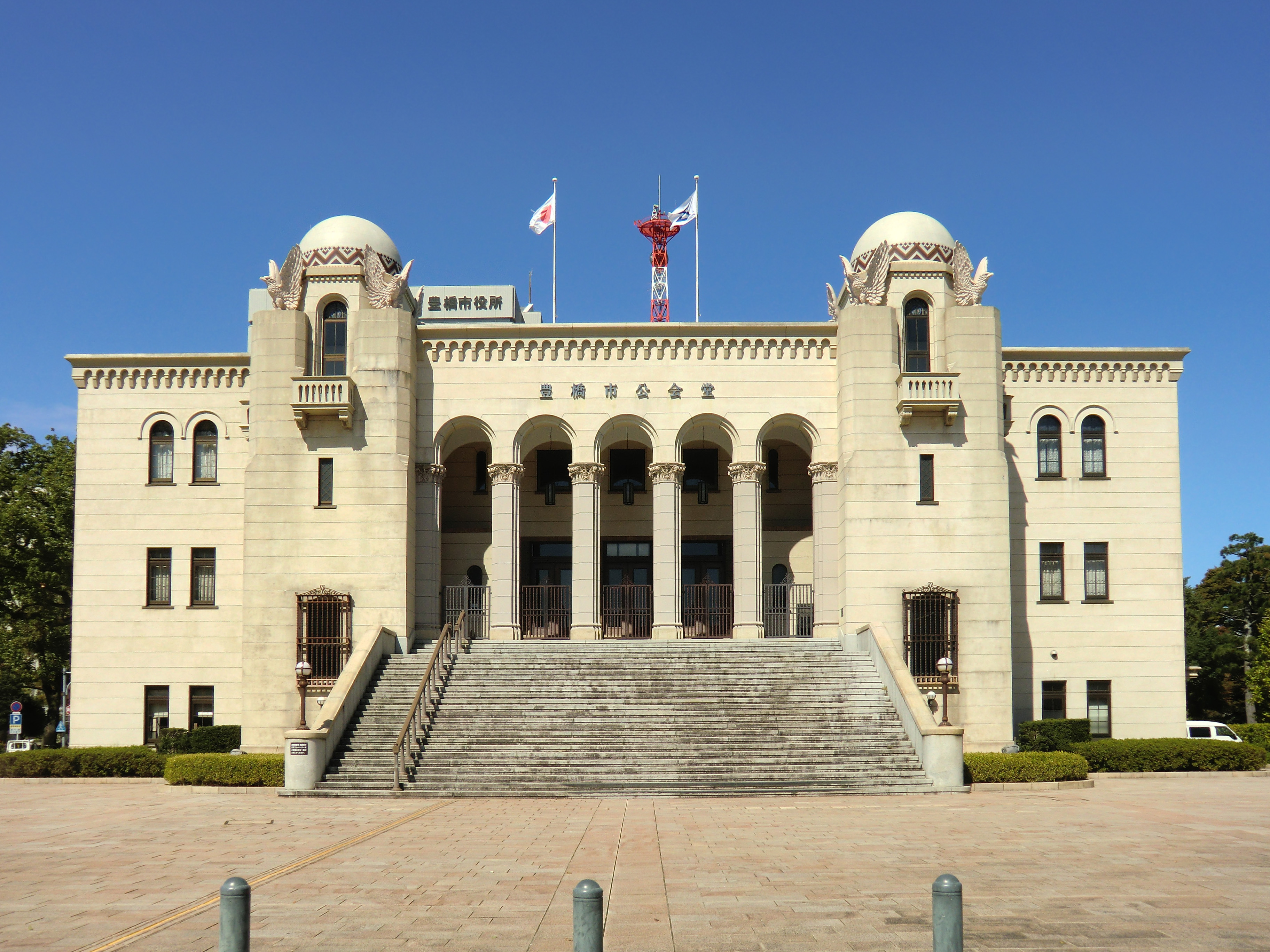 Toyohashi City Public Hall (豊橋市公会堂 Toyohashi-shi Kōkaidō), located at 3-8, Hacchodori, Toyohashi, Aichi, Japan